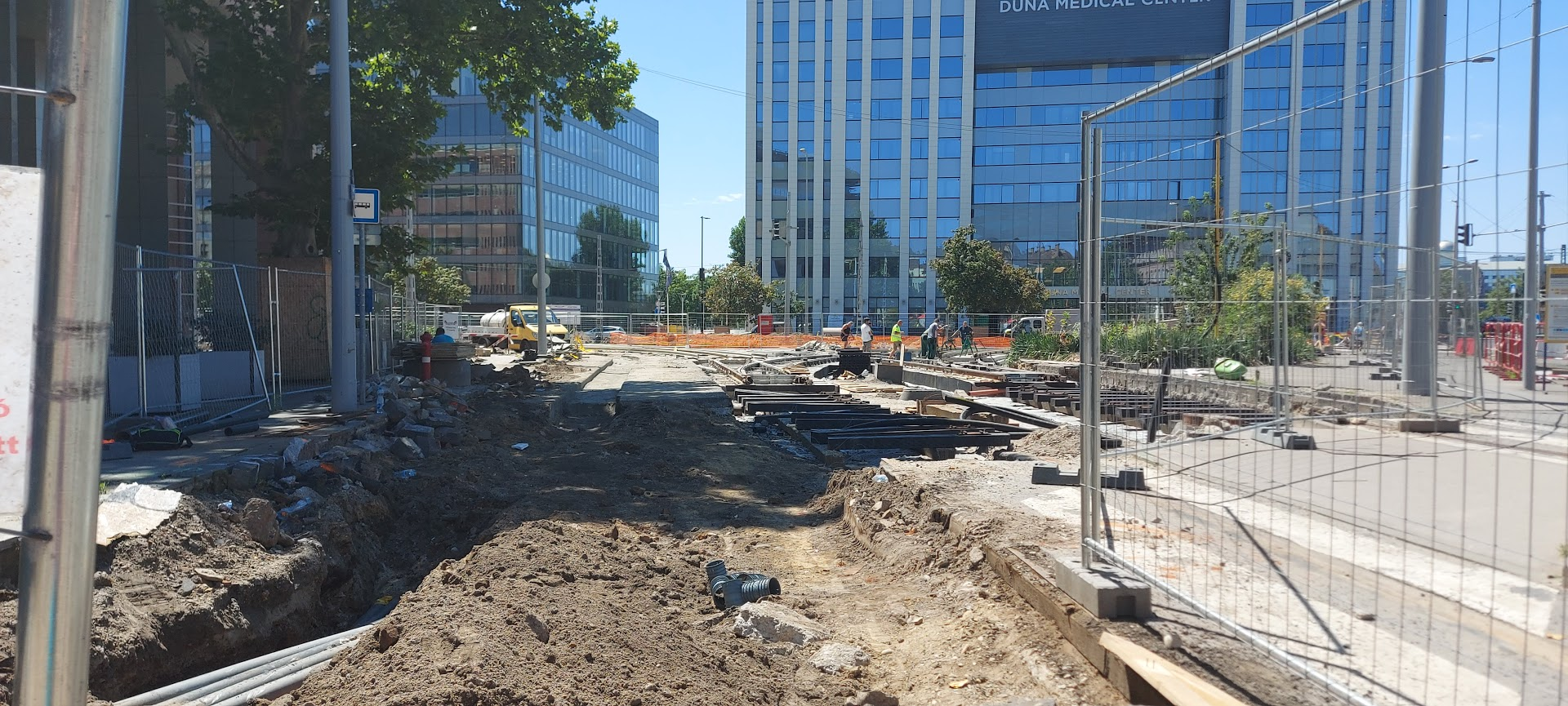 Delta junction's rebuilding after 1973. Soroksári & Haller Streets, Budapest IX.